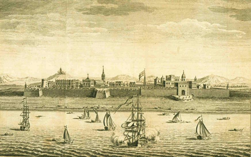 A Perspective View of Fort St George on the Coromandel Coast, belonging to the East India Company, copper engraving "Printed for J. Hinton at the King's Arms in Newgate Street"